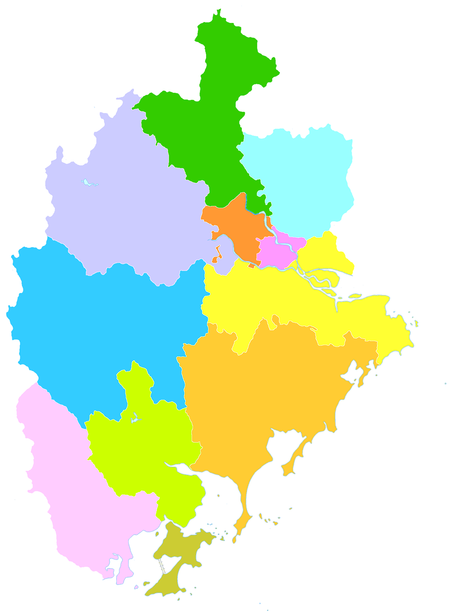 Administrative divisions of Zhangzhou City, Fujian, People's Republic of China (Note: Dongding Island is part of Kinmen County, Republic of China (Taiwan). The island is claimed by the People's Republic of China.)